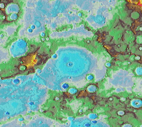 Topographic map of Rembrandt Basin on Mercury. Blue is low and red is high.